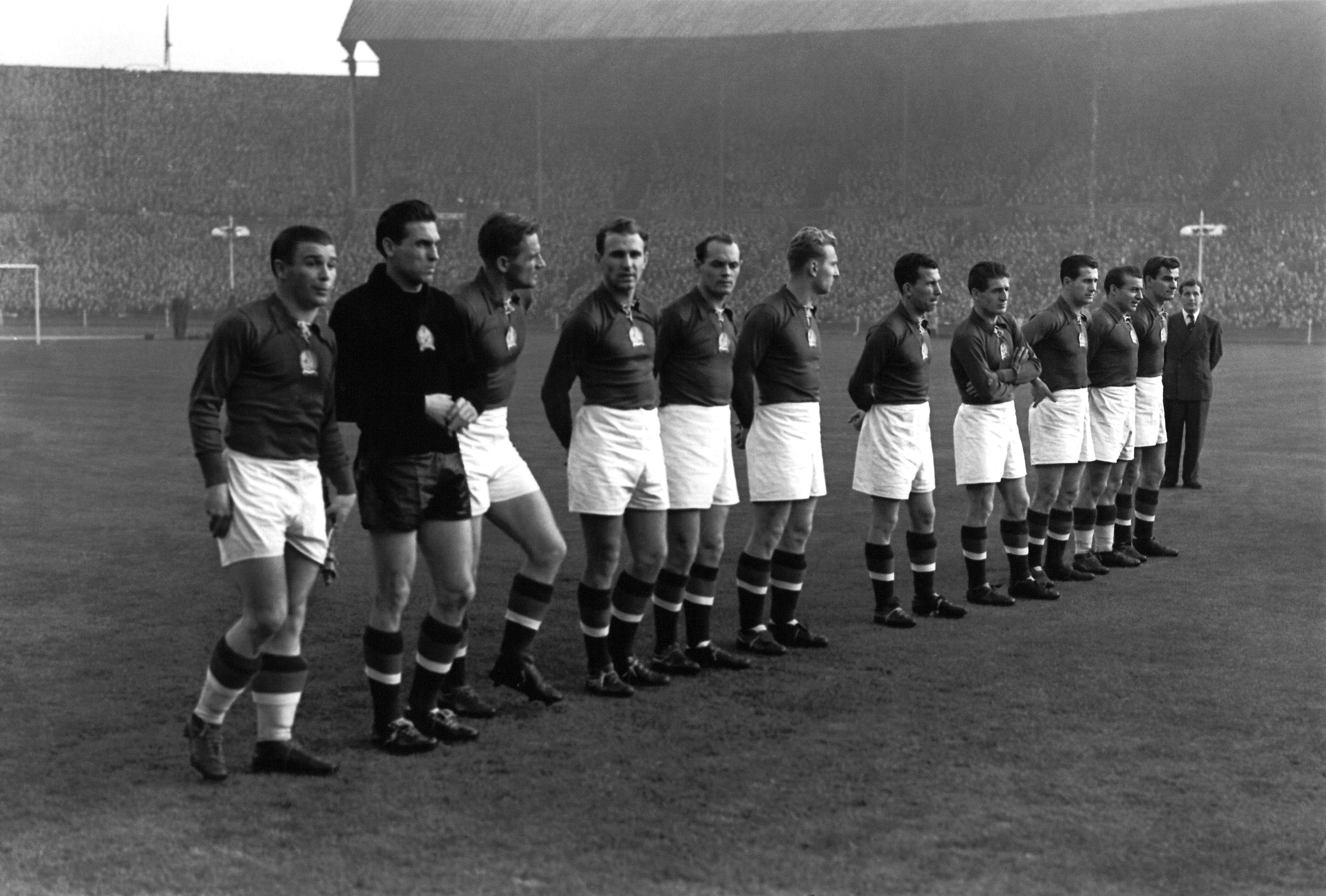 Wembley Stadium, the Hungarian national team before the 6:3 match against England: Puskás, Grosics, Lóránt, Hidegkúti, Buzánszky, Lantos, Zakariás, Czibor, Bozsik, Budai II., Kocsis.